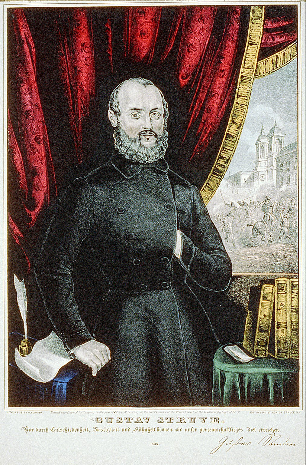 Gustav Struve. CREATED/PUBLISHED: New York : Published by N. Currier, 1848. REPOSITORY: Library of Congress Prints and Photographs Division Washington, D.C. 20540 USA. Public Domain.